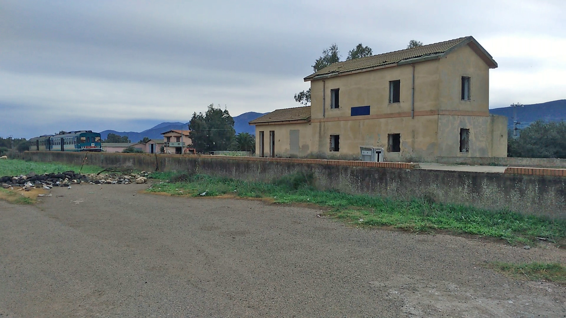 Trenitalia train composed ALn 663 and 668 railcars passing through the former Musei station, in Sardinia, Italy, along the Decimomannu-Iglesias railway